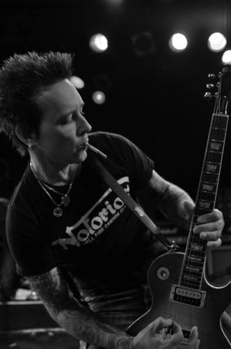 Billy Morrison of Circus Diablo - Live in Concert (photo by Scott Dudelson)